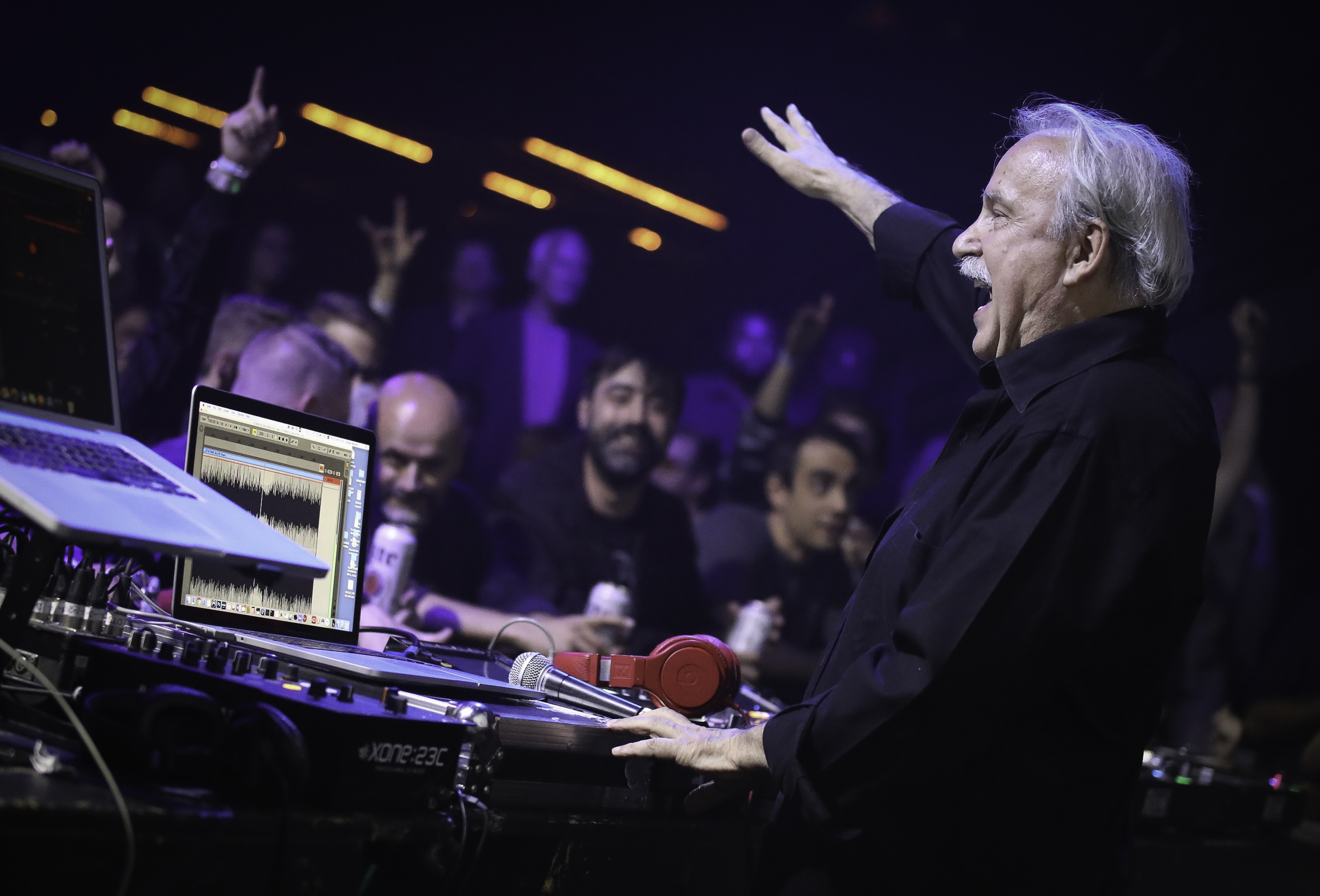 Giorgio Moroder - First Avenue Minneapolis - The Current